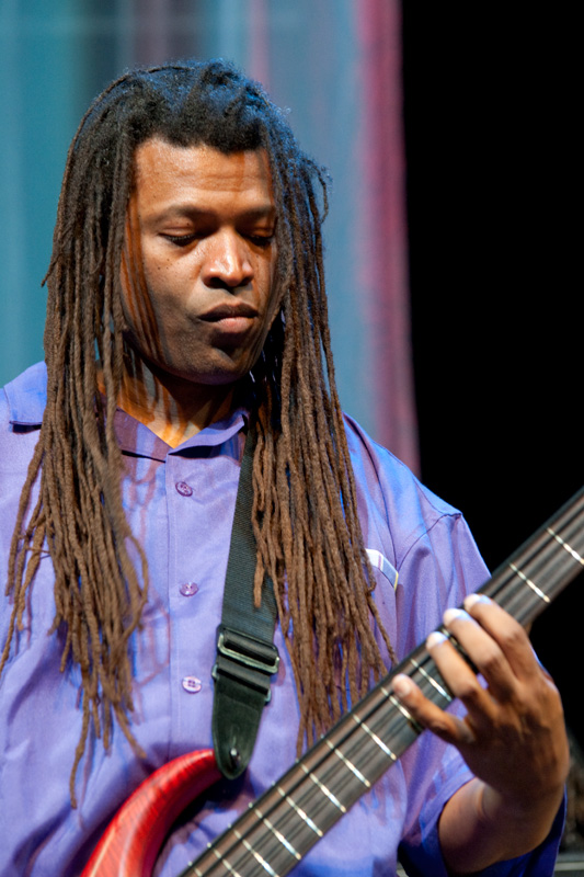 Melvin Gibbs, moers festival 2010